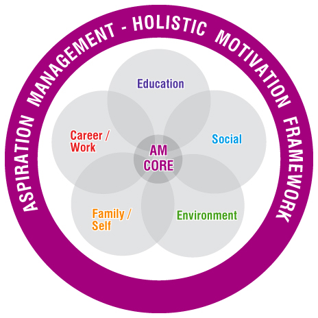 Aspiration Management - Holistic Motivation Framework highlights the need for a holistic approach to Employee Motivation provided through the People Management Infrastructure.